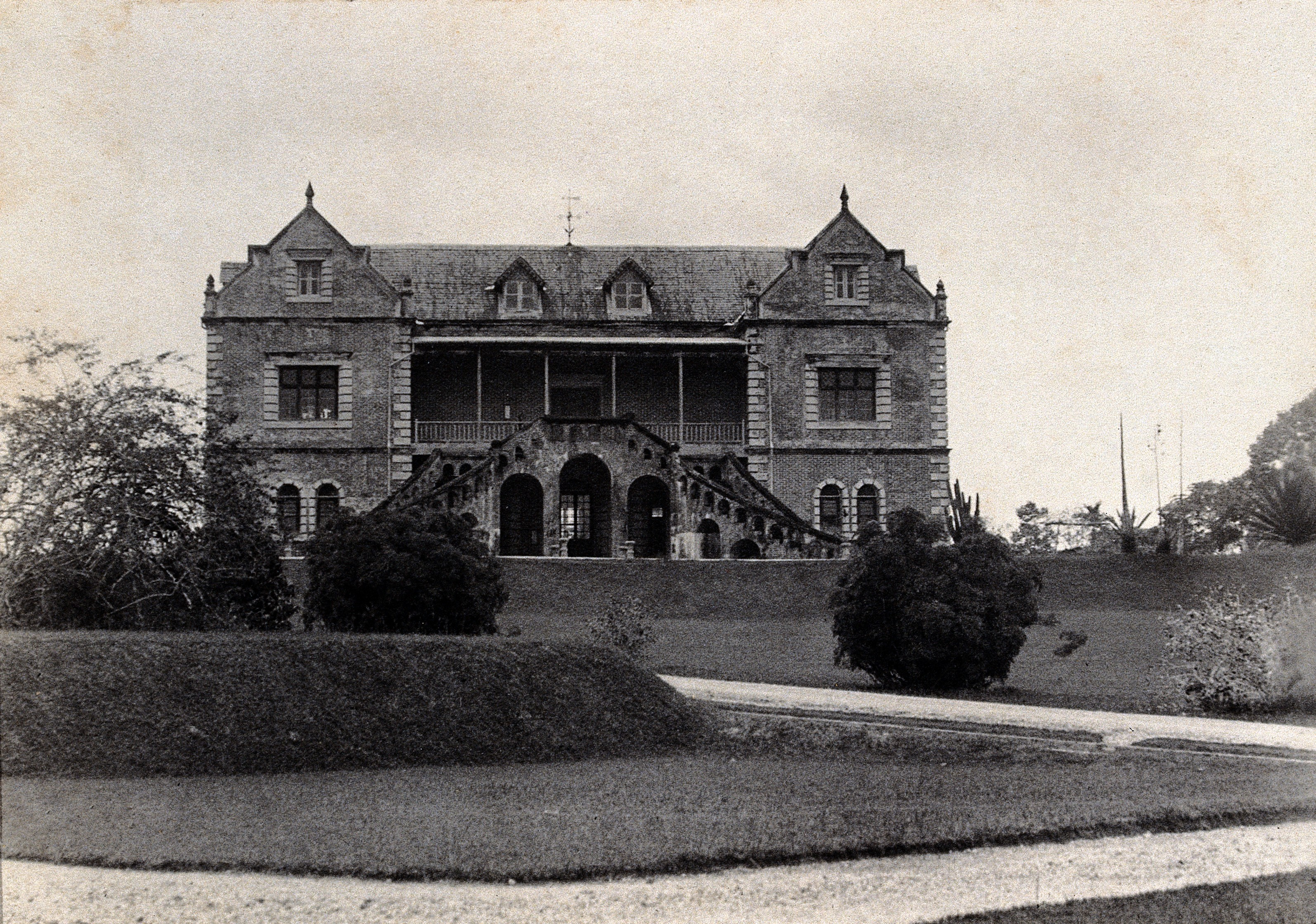 Kuching, Sarawak: the museum building. Photograph. Iconographic Collections Keywords: Anthropology; Malaysia; Charles Hose; Ethnography; Borneo